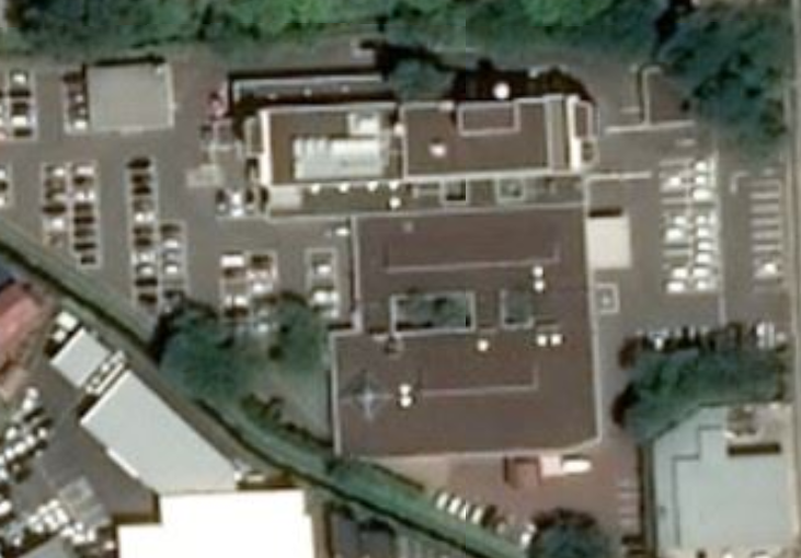 Satellite view